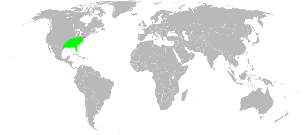 Distribution range of Zygoballus sexpunctatus jumping spider. This is not a precise rendering of the distribution. If you have better information, please replace this map.